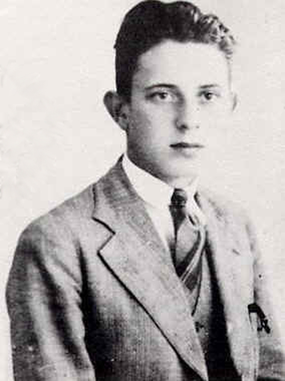 Jerzy Różycki - Polish mathematician and cryptologist, helped decipher Enigma.